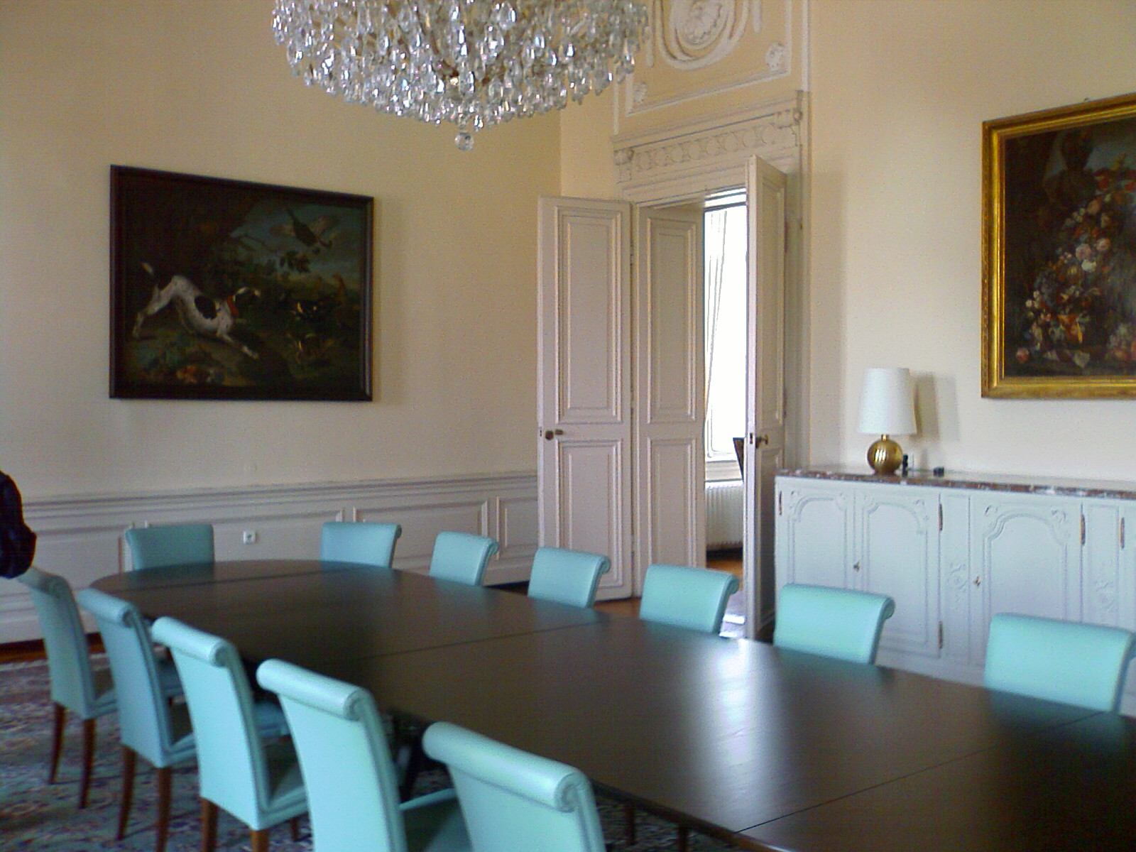 Small conference inside the German Embassy in Prague, Czech Republic